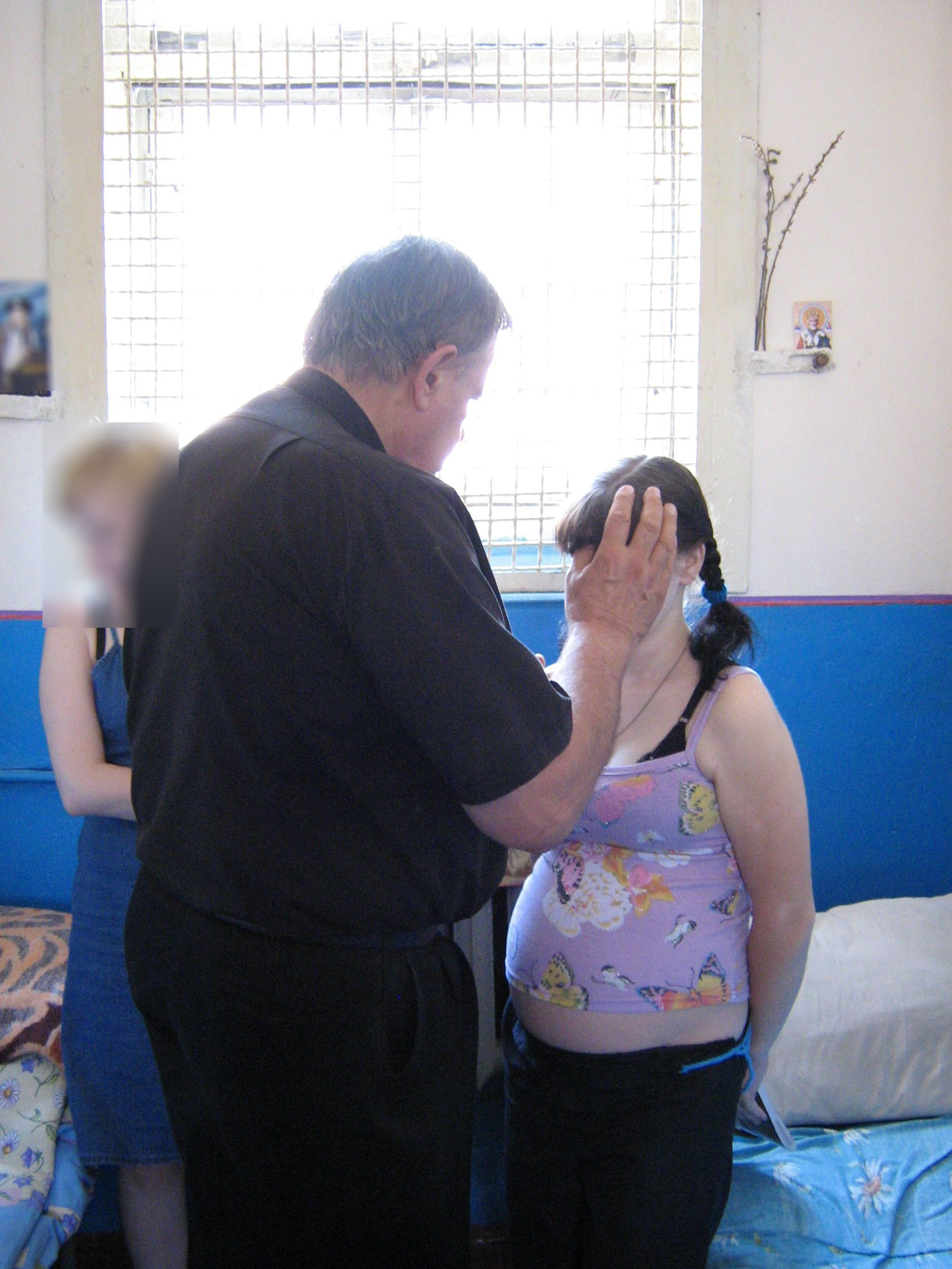 Chaplain Paul Manley blesses pregnant inmate